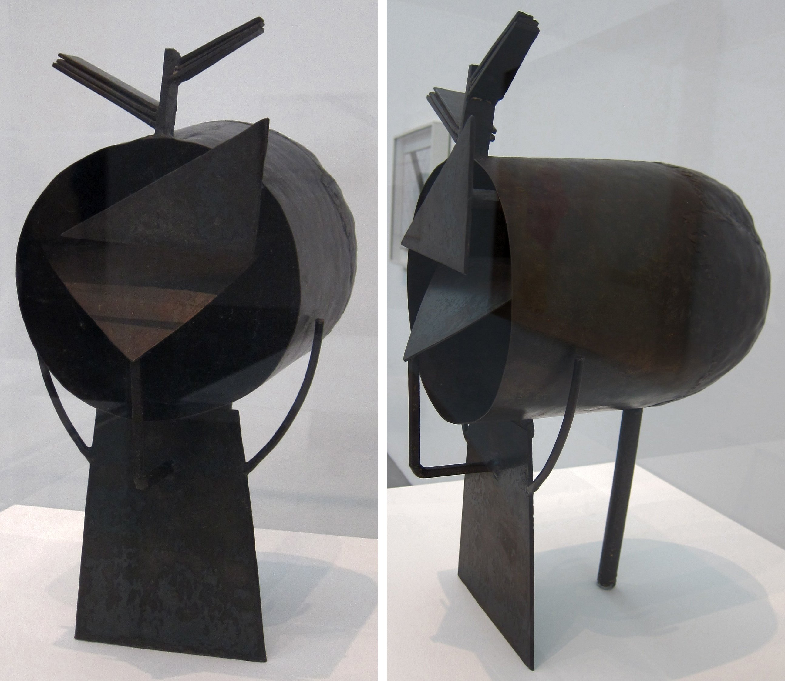 Head called “The Tunnel” steel sculpture by Julio González, 1933-4, Tate Modern